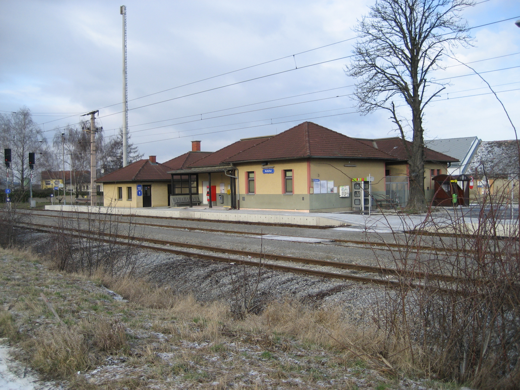 Wolfsthal train station in Lower Austria